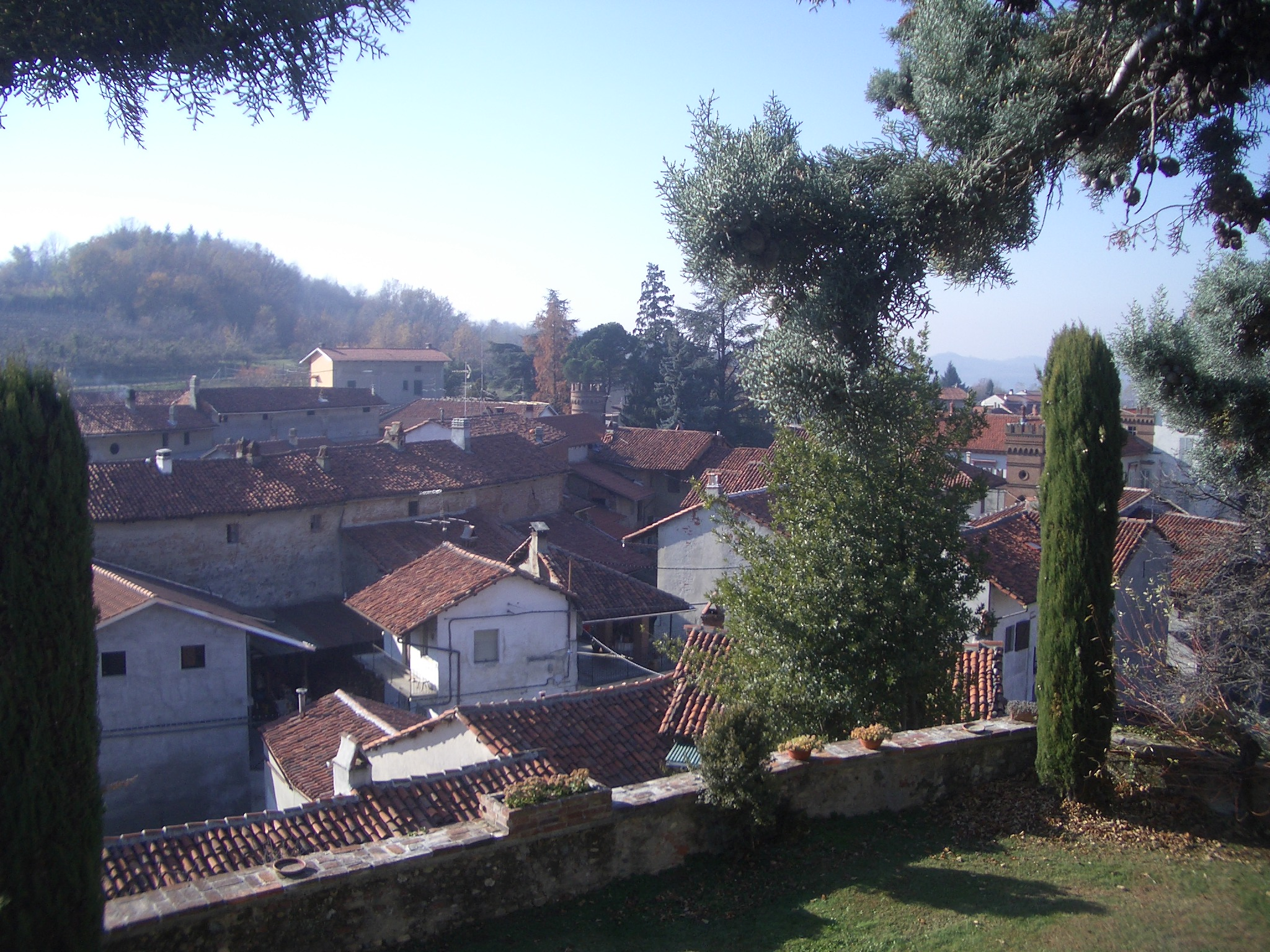 View of the town from the castle, Moncrivello, Vercelli, Italy